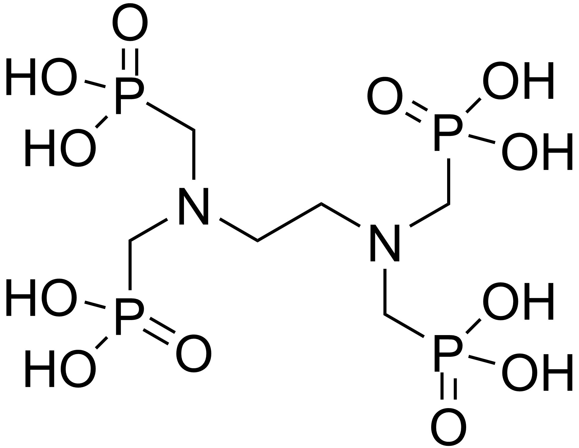 chemical structure of EDTMP - diethylenetriamine penta(methylene phosphonic acid)